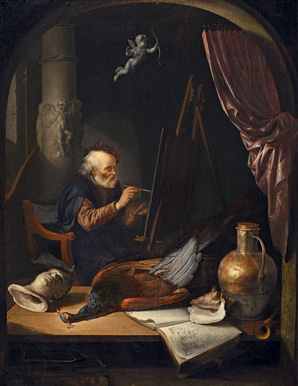 Old Master at Work. Painting by Gerrit Dou, 1648. Oil on panel. 68,2 x 53,5 cm